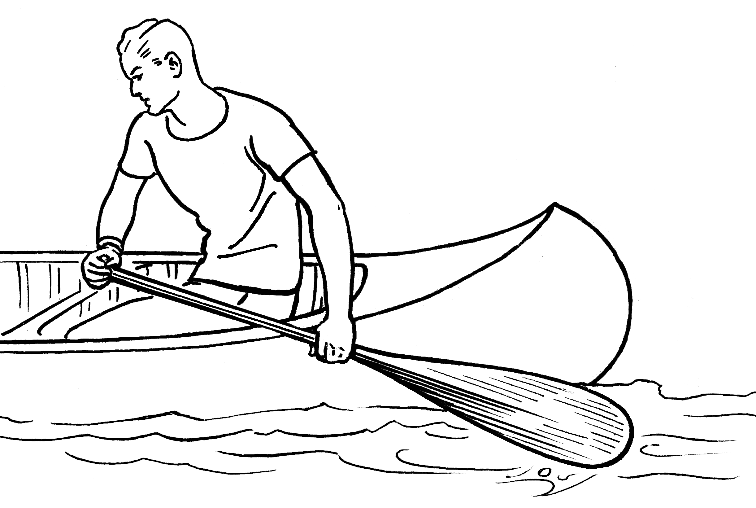 Line art drawing of paddle.